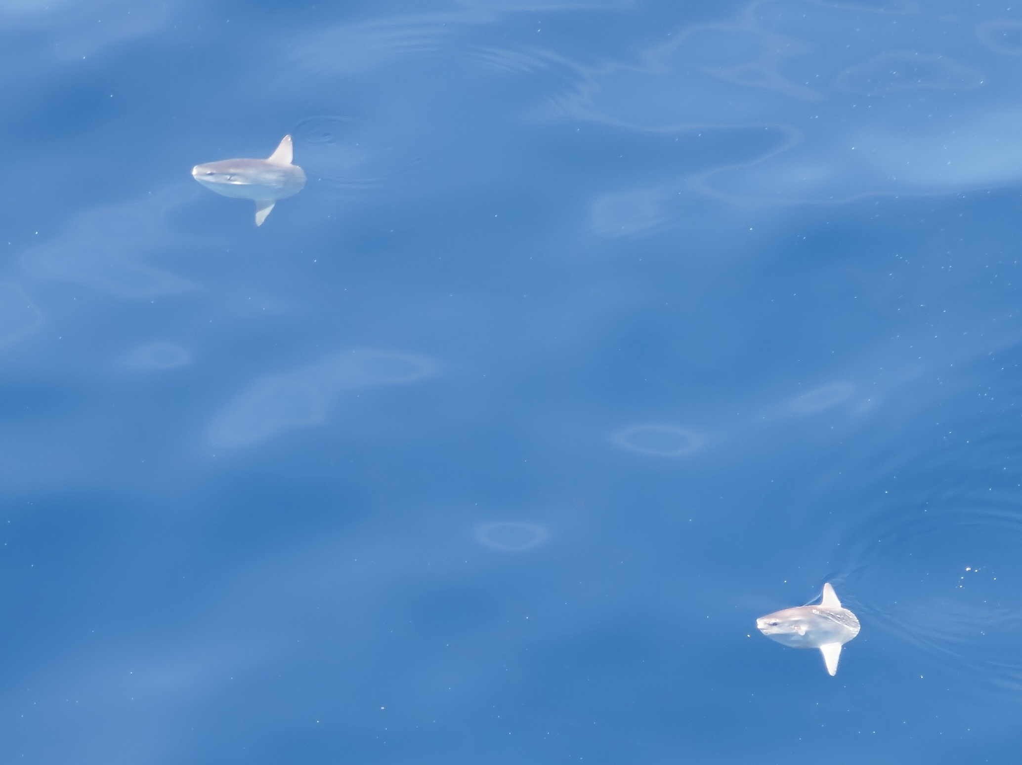 Two Ocean sunfish viewed from the Mallorca - Barcelona ferry